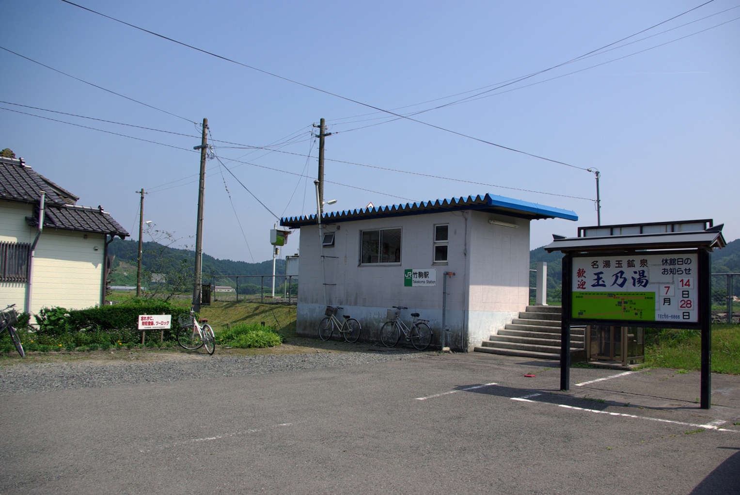 Takekoma Station on Ofunato Line